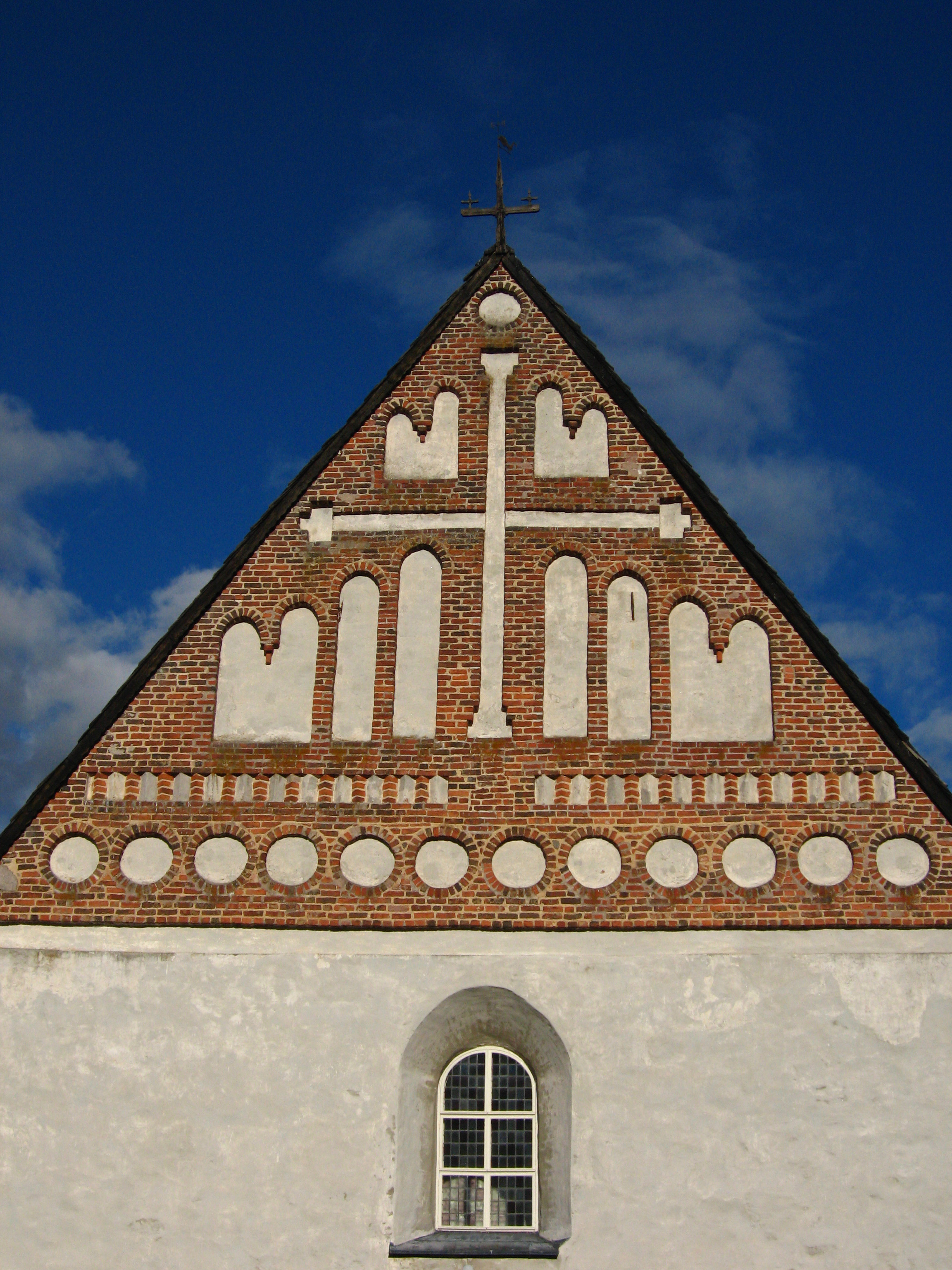 Saint Michael Church in Pernå, Finland